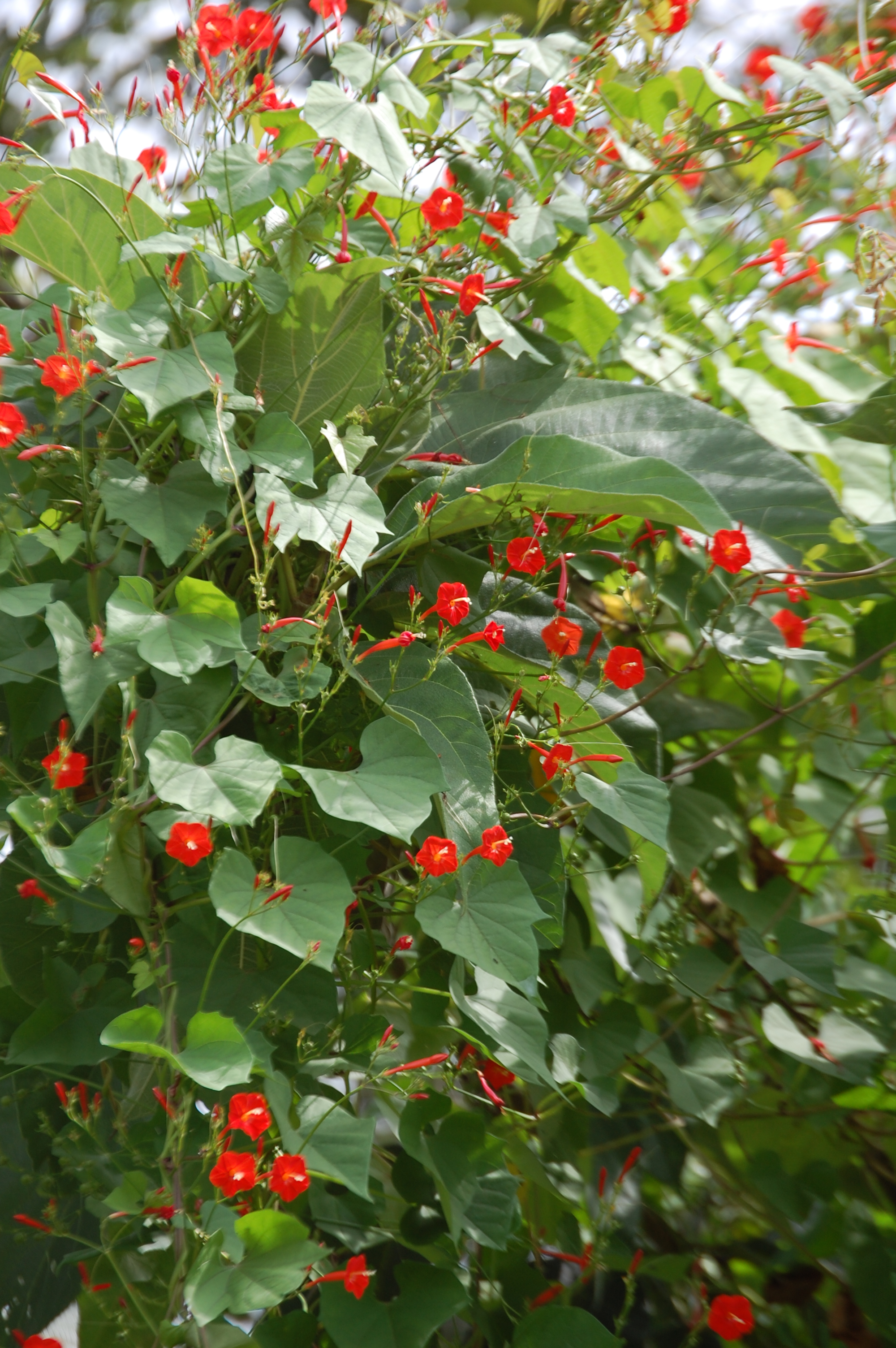 Ipomoea hederifolia